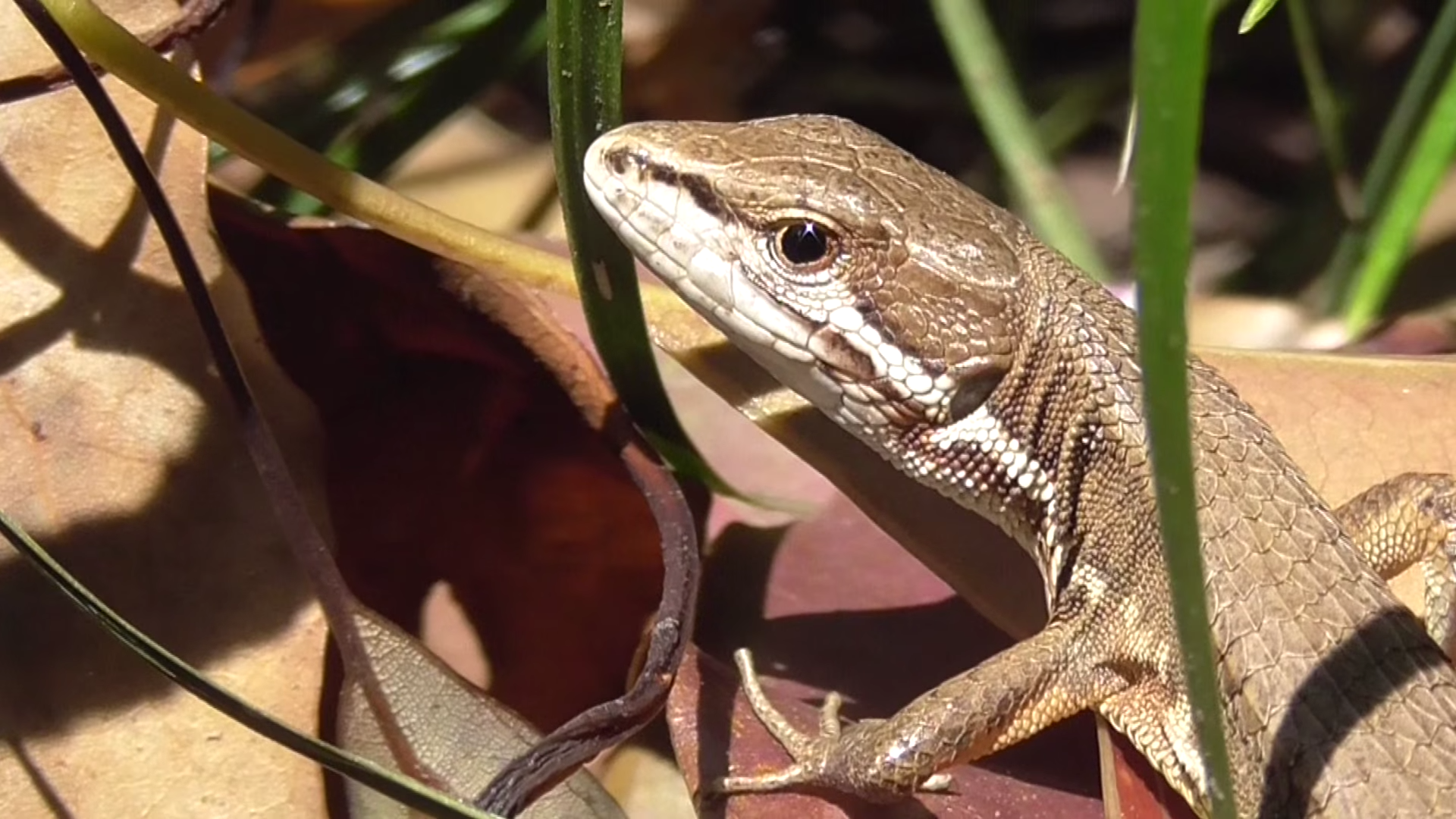 Japanese grass lizard (Takydromus tachydromoides). Filmed in Kitanomaru Park, Chiyoda-ku, Tokyo, Japan on 9 April 2016.